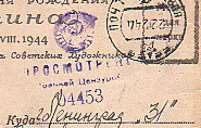 Fragment of the USSR greeting card with military censor postal marking, 1944